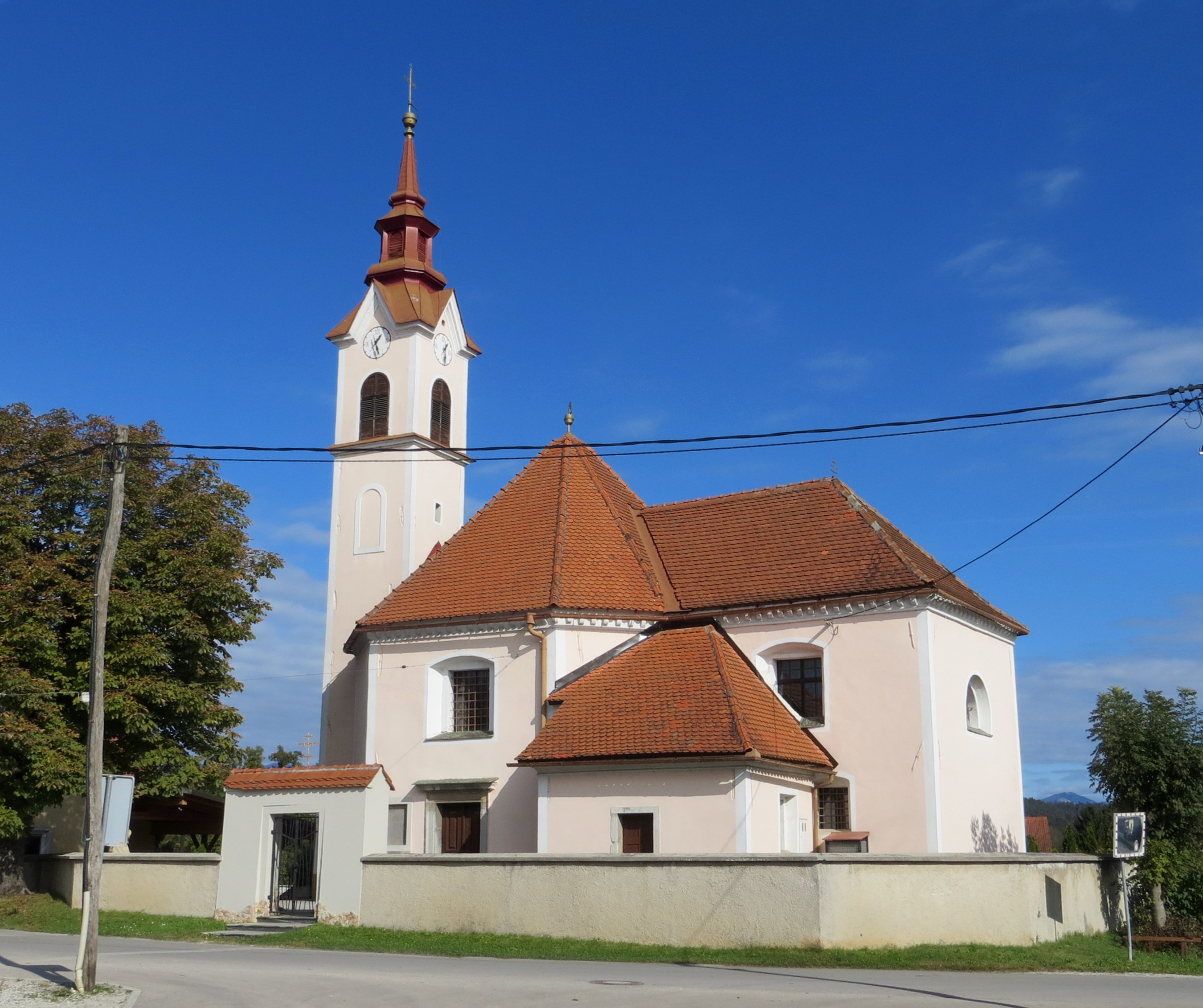 Church in Šmartno ob Savi, City Municipality of Ljubljana, Slovenia